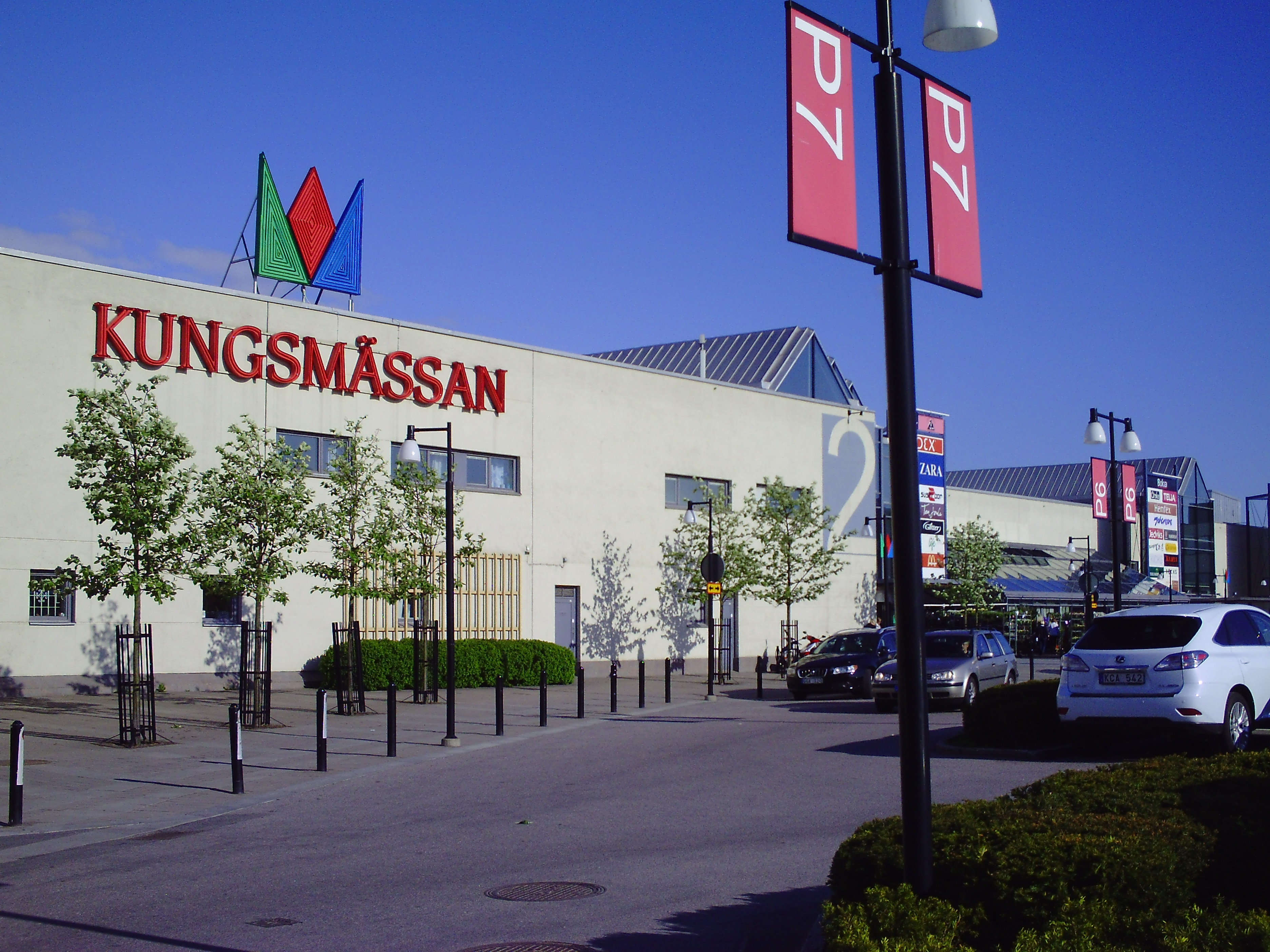 Kungsmässan in Kungsbacka, Sweden.